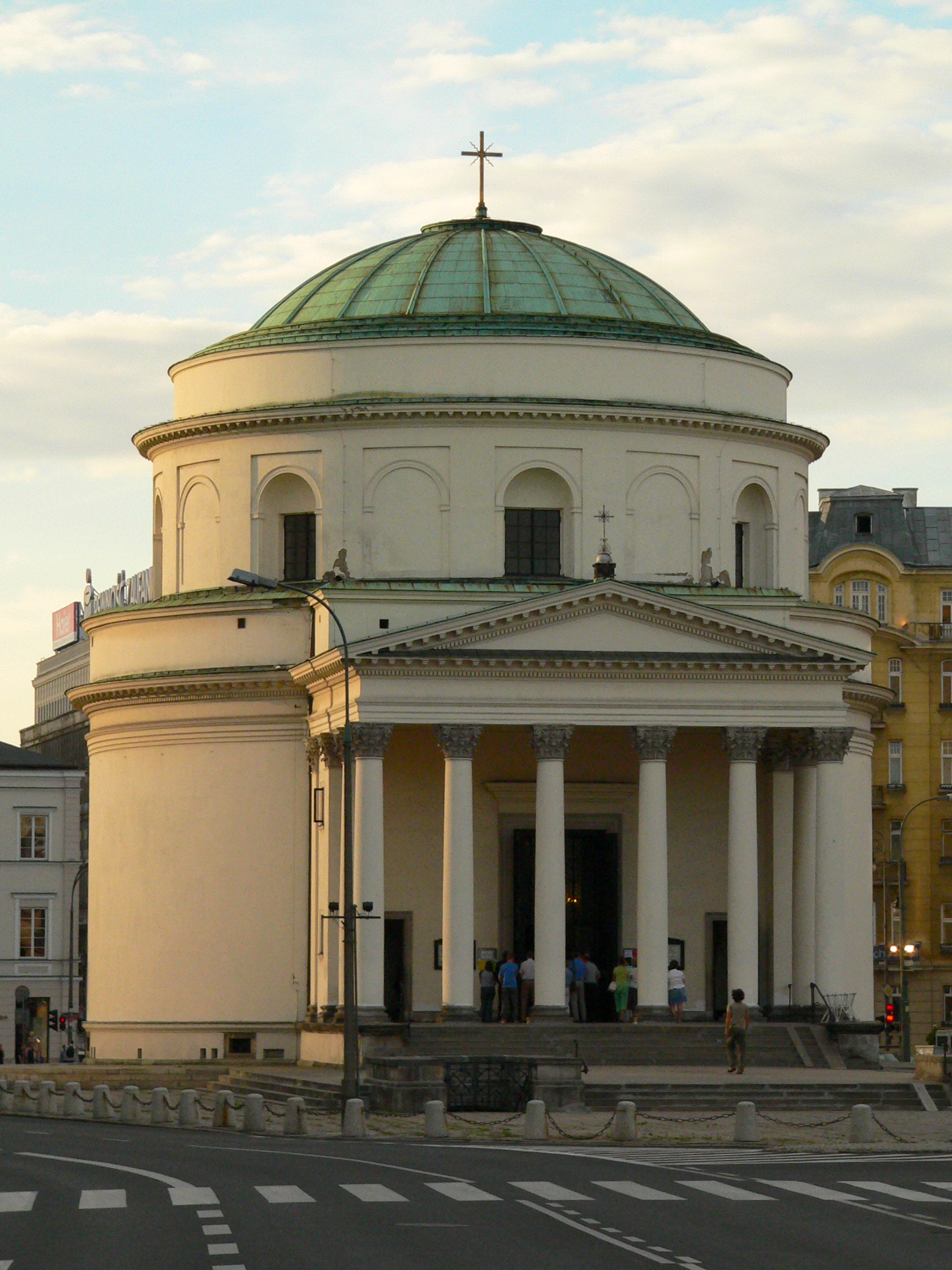 St Alexander church in Warsaw, Poland